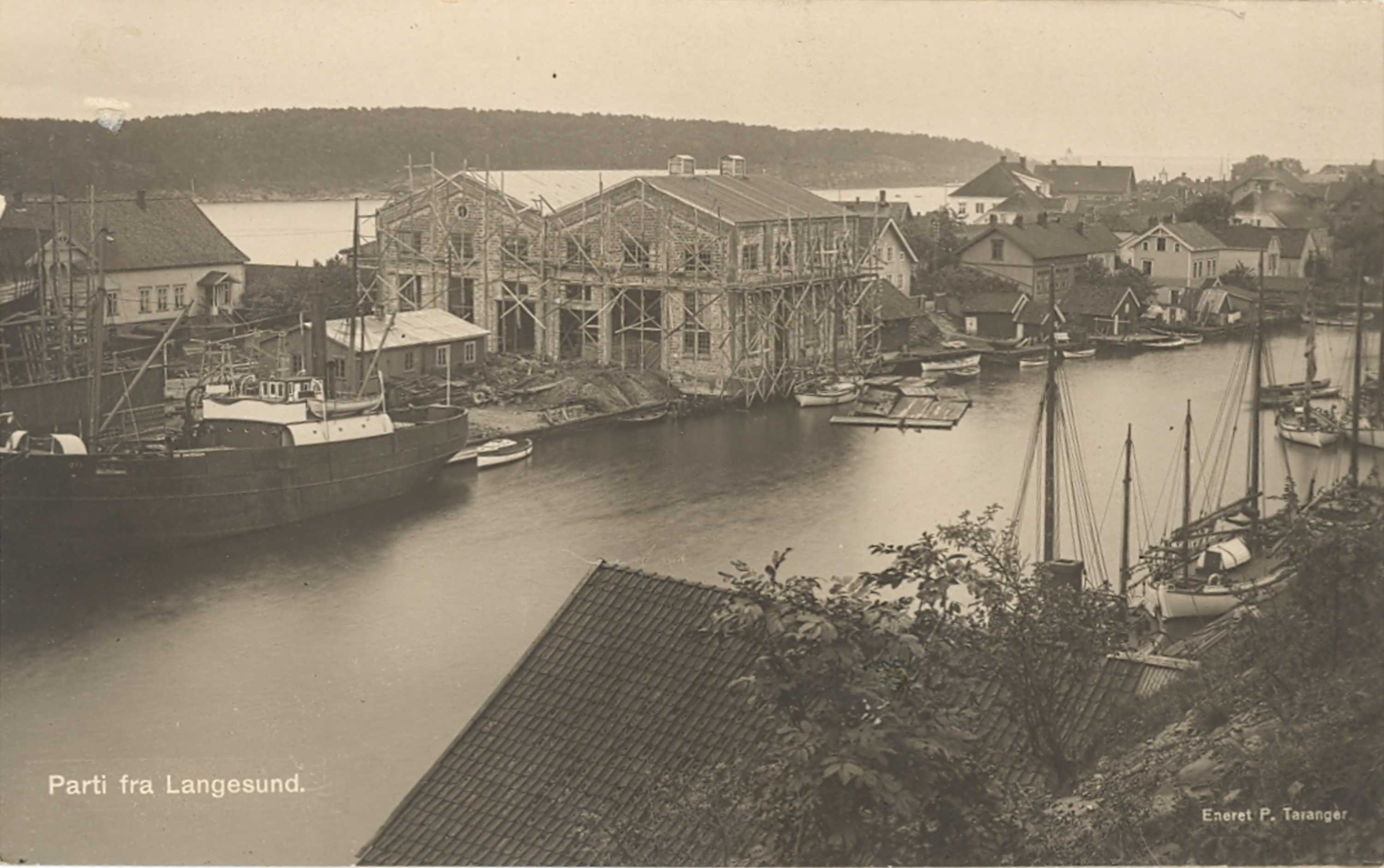 Foto: Langesund Mekaniske verksted